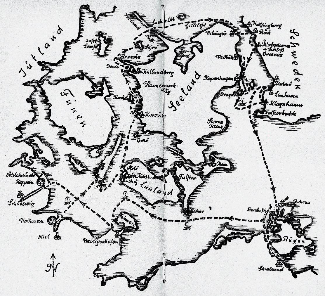 Map sketch of Northern Germany (Schleswig-Holstein, Mecklenburg and Vorpommern) with the islands Fehmarn, Hiddensee and Rügen in the Baltic Sea, Denmark and Southern Sweden. The map shows a round-trip of Martin Luserke's ship 'Krake' from 1936 (his fourth Denmark trip) which is described in his book 'Logbuch der Krake' from 1937.